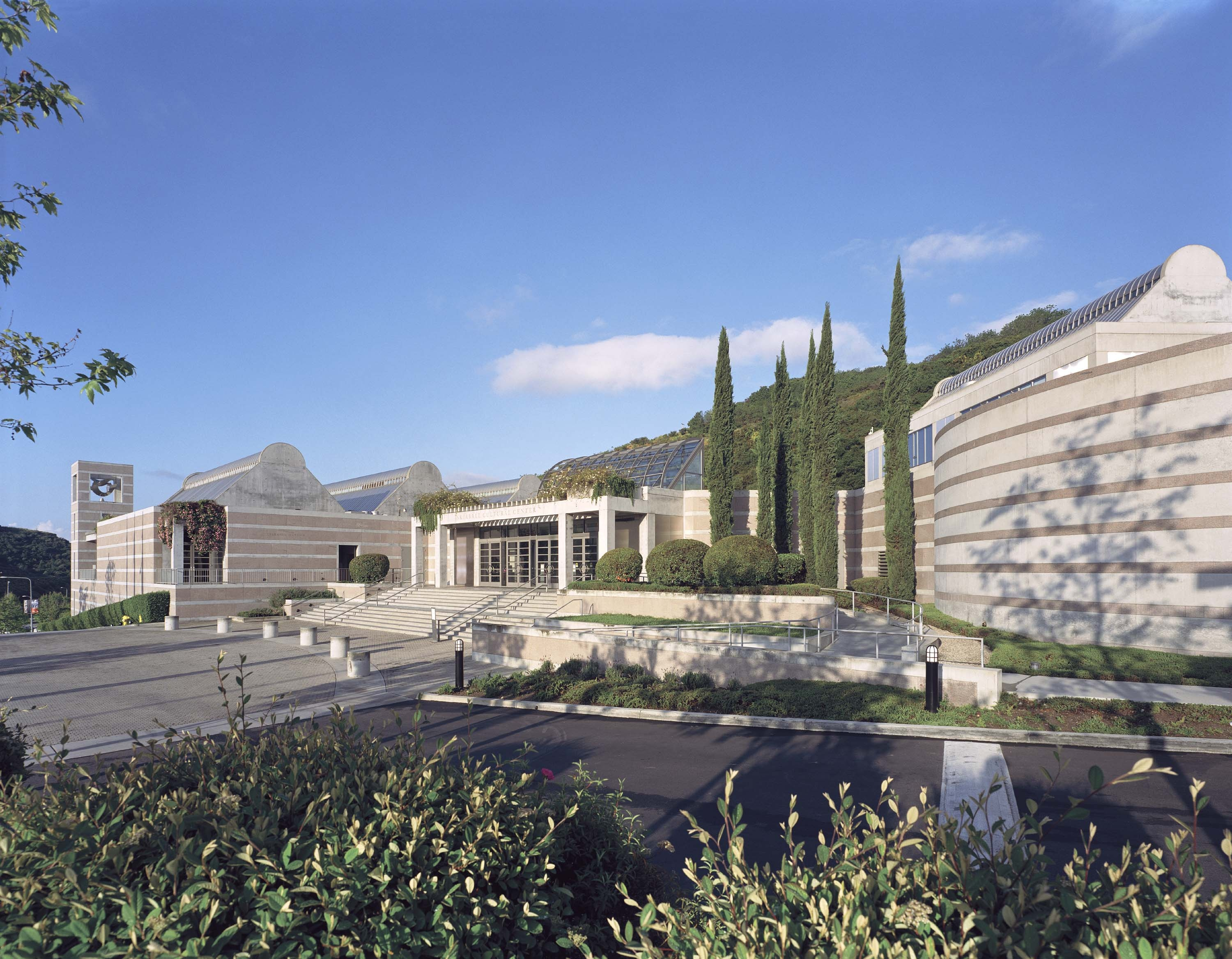 Entry court of the Skirball Cultural Center — in the Sepulveda Pass area of the Santa Monica Mountains, Los Angeles.